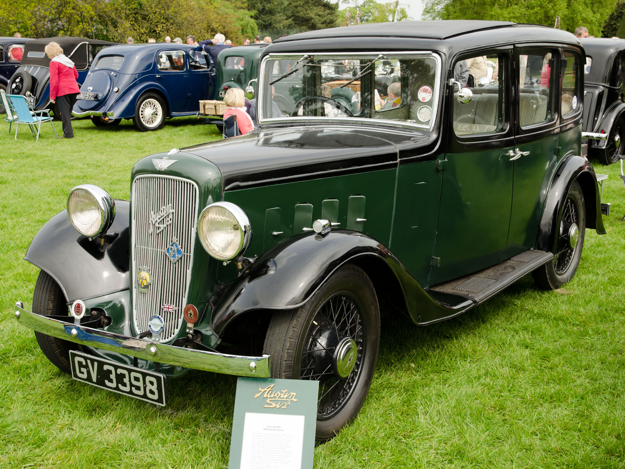 1935 Austin 12-6 Ascot Saloon (DVLA) first registered 2 May 1935, 1697 cc Catton Hall Classic Car Show 04/05/2014